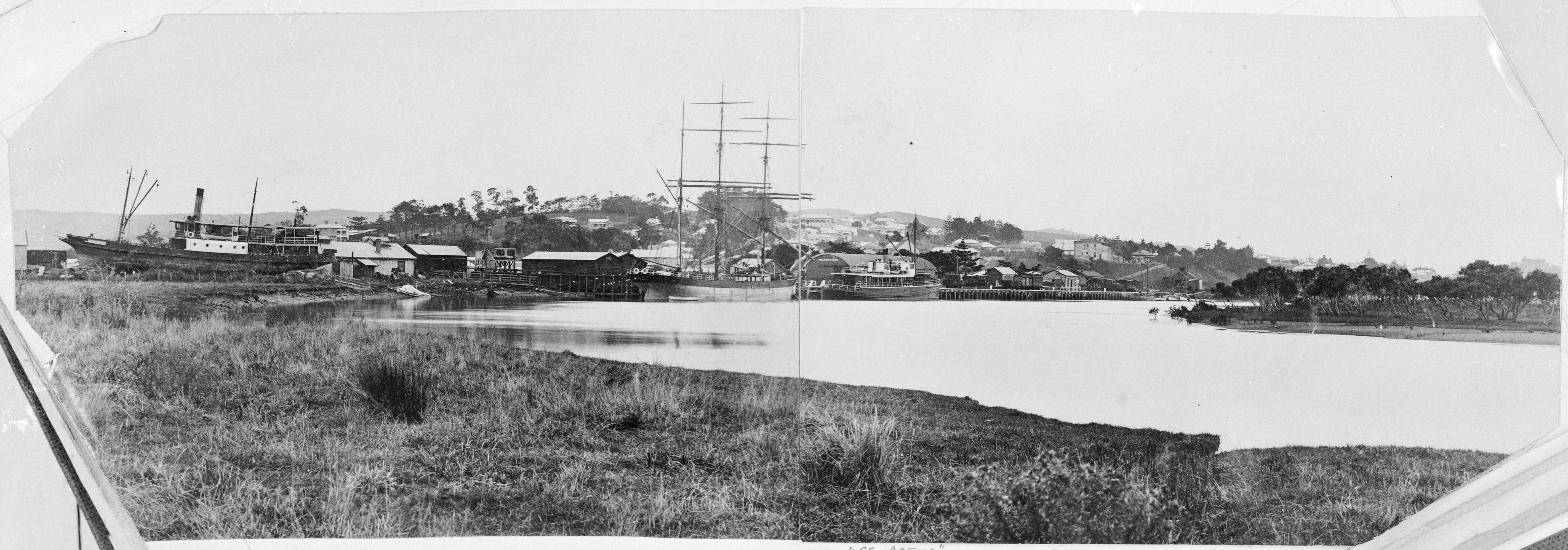 View across the Kaipara River towards Helensville and the railway station. Moored at the wharf are the sailing ship Hazel Craig, and SS Aotea. Another steamship (unidentified) is hauled from the water on the left. Photograph taken by Albert Percy Godber, 1912. This image is a film negative copy taken from the print in Godber Album Vol 110, p 185 (PA1-q-103). The inscription beneath the image lists the ship to the right of the Hazel Craig as the SS Aotea, though note on the back of the file print reads "SS Aotea hauled out".